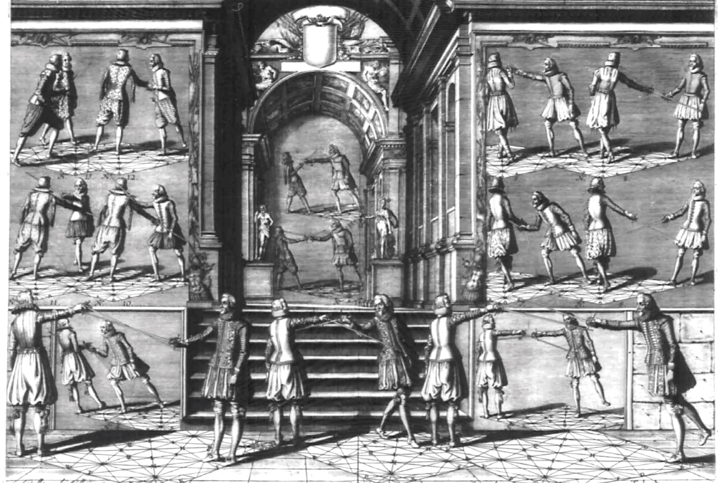 Об альтернативной гвардии. Иллюстрация из трактата Жерара Тибо "Академия меча"